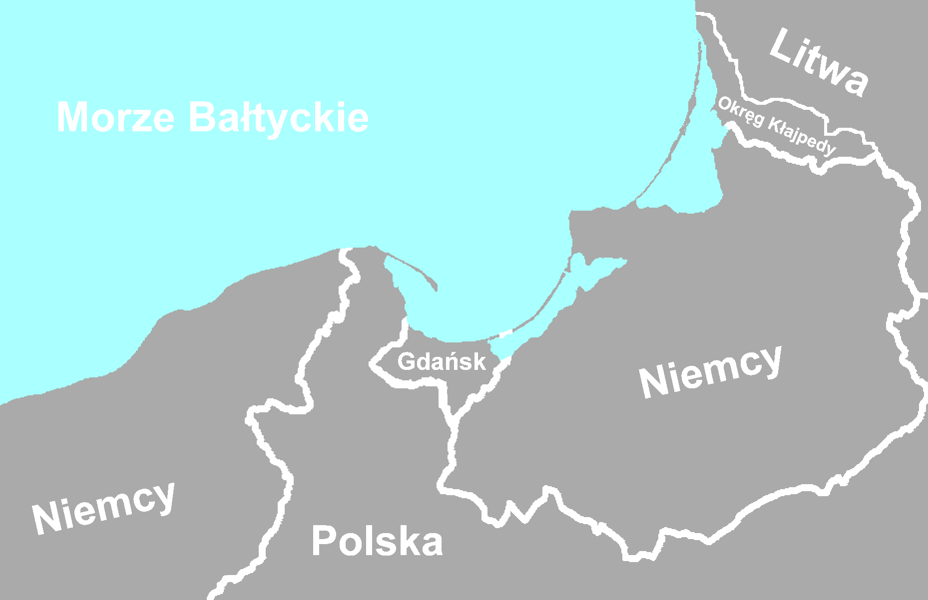 Map of the Gdańsk Bay in 1939. The Memel Territory was retransfered from Lithuania to Germany in March 1939.